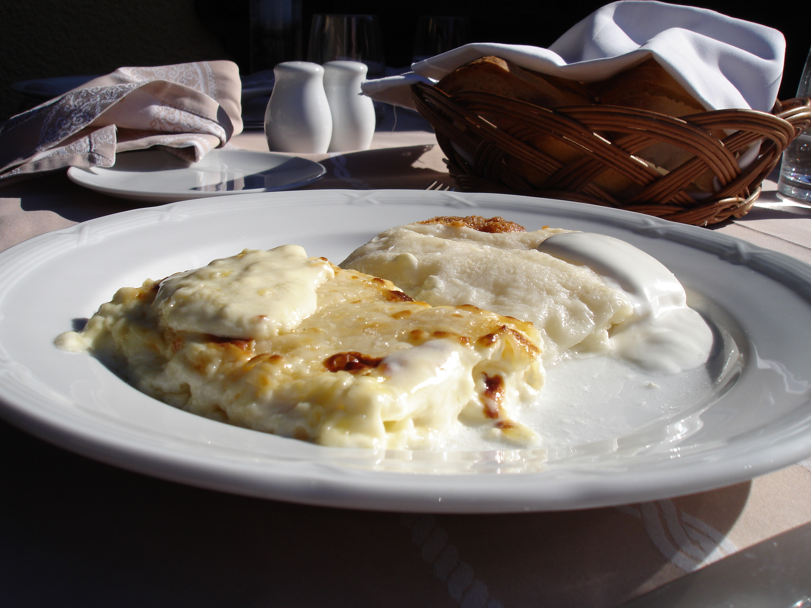 Štrukla - traditional Croatian dish, restaurant "Okrugljak" Zagreb